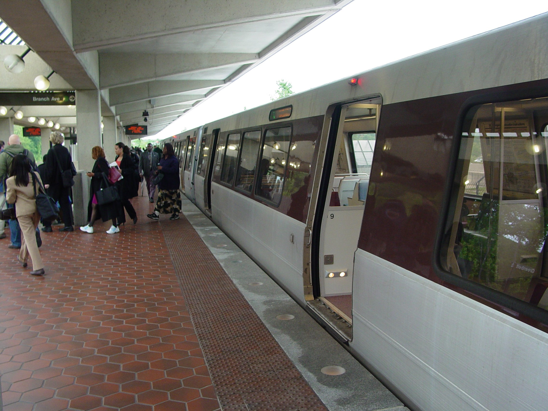 Washington Metro, Greenbelt station.